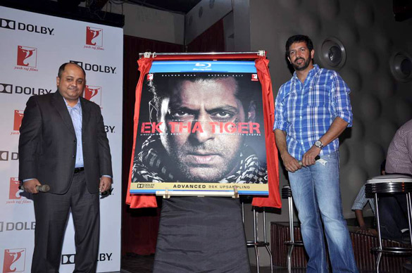 Director Kabir Khan (r) launches the Blue-ray disc of his 2012 film Ek Tha Tiger